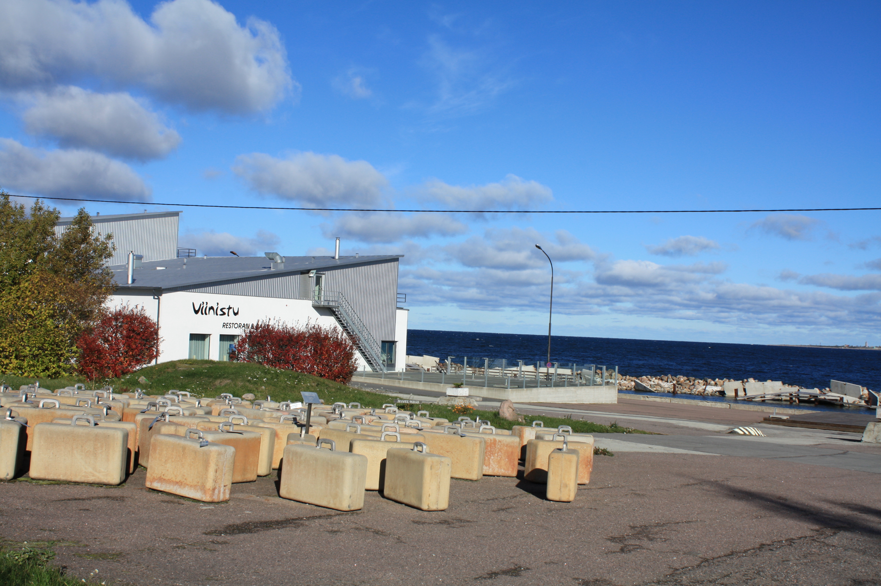 Viinistu art museum